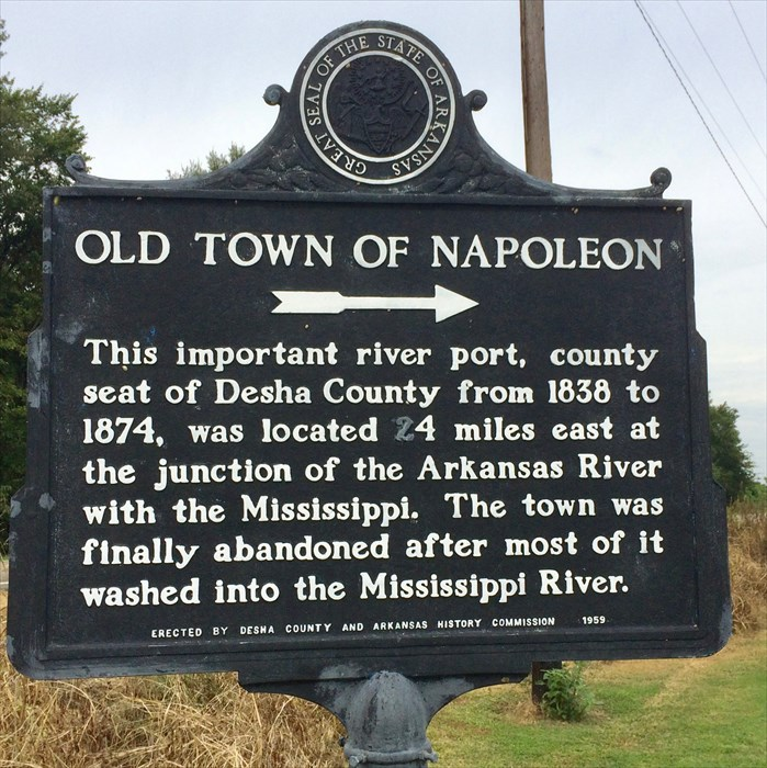 Old Town of Napoleon - Desha County and Arkansas History Commission